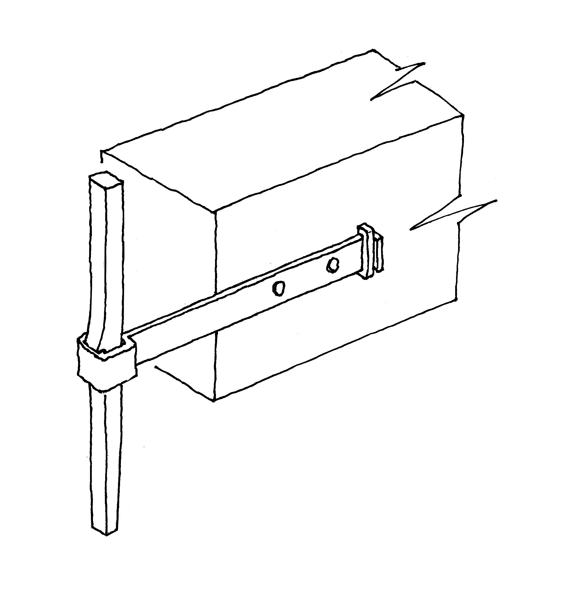 Wrought iron anchor plate in masonry wall, connected to a beam or joist